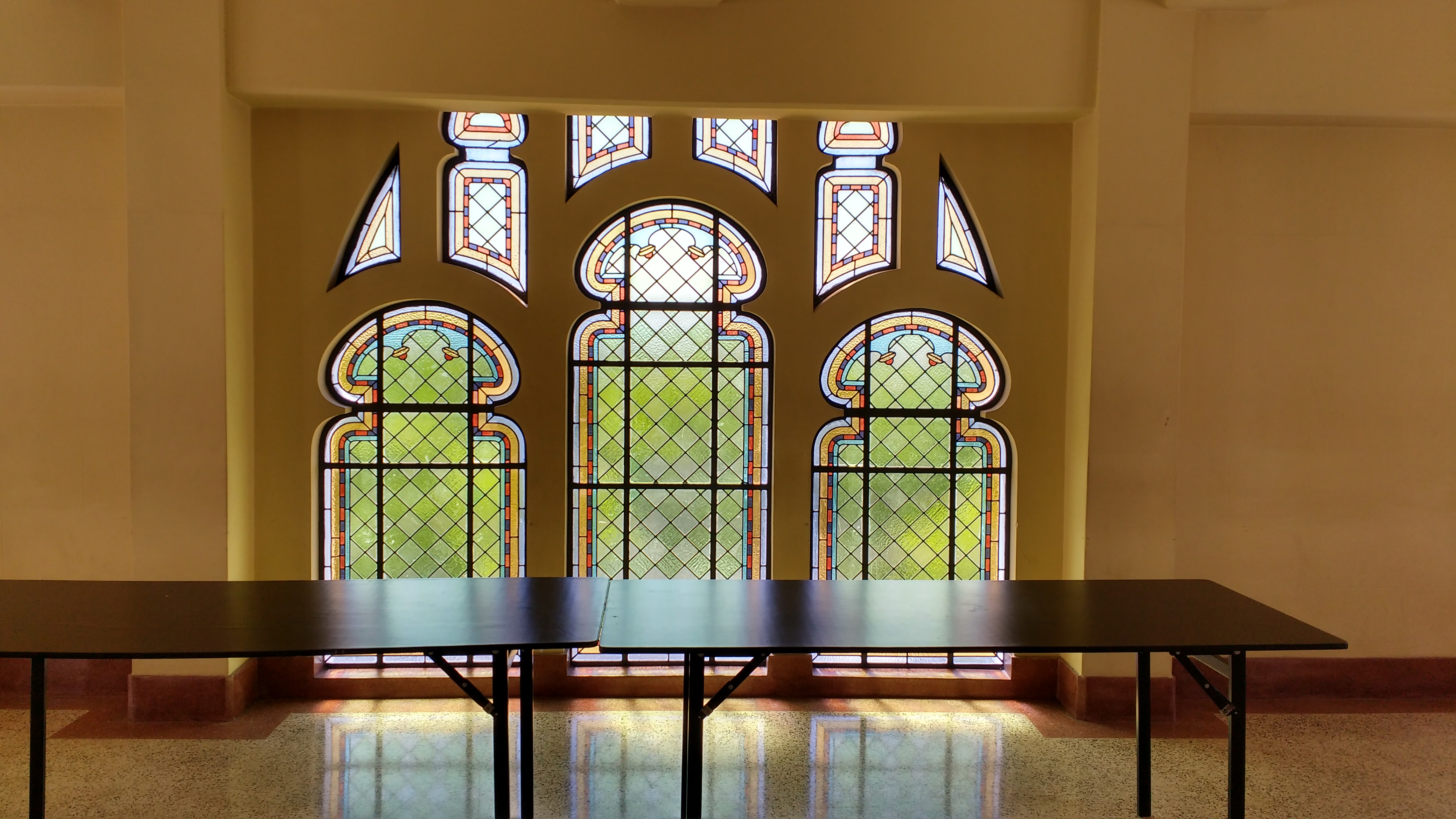 Color tinted windows of the upper floor, viewed from the inside.